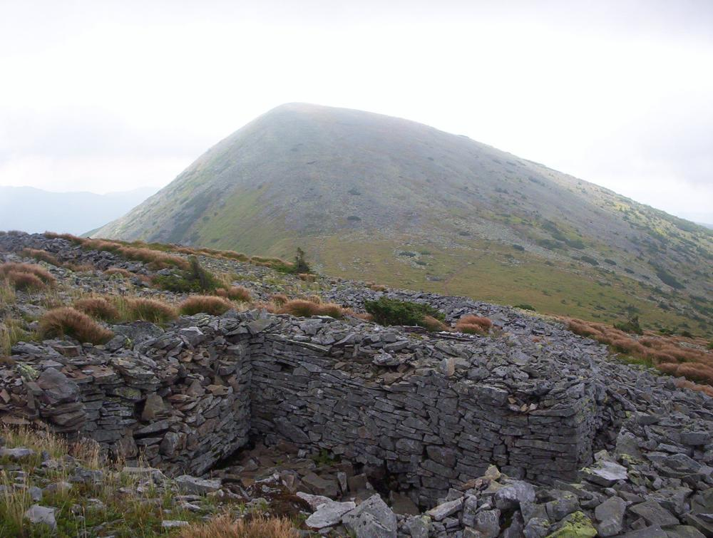 Trenches under Syvulia with view to Small Syvulia.